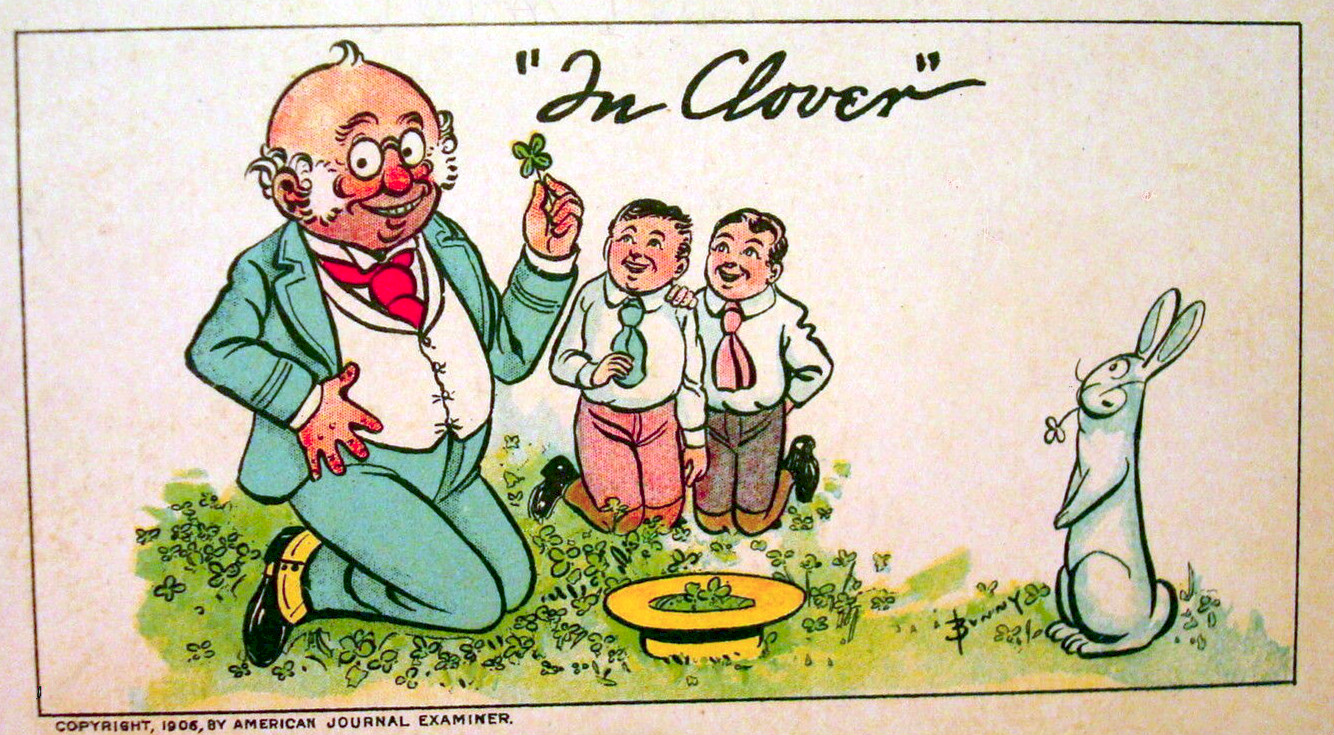 Postcard of the comic character Foxy Grampa and his 2 grandsons. The boys continually tried to outwit their grandfather, who was always successful at turning the tables on them.